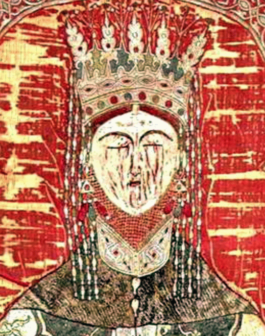 Maria Asanina Palaiologhina (better known as Maria de Mangop), Princess consort of Moldavia